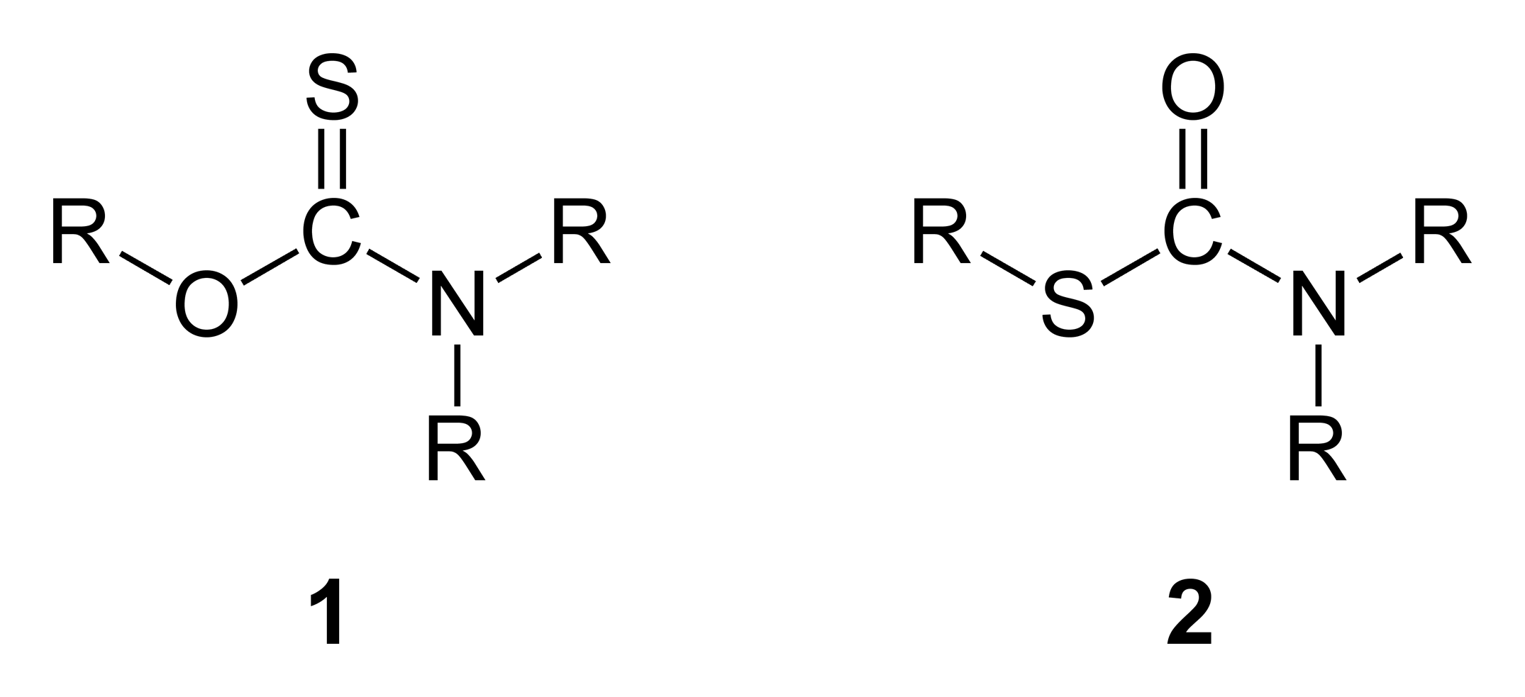 General structural formulae of O- and S-organyl thiocarbamates. Structure drawn in ChemBioDraw Ultra 12.0.